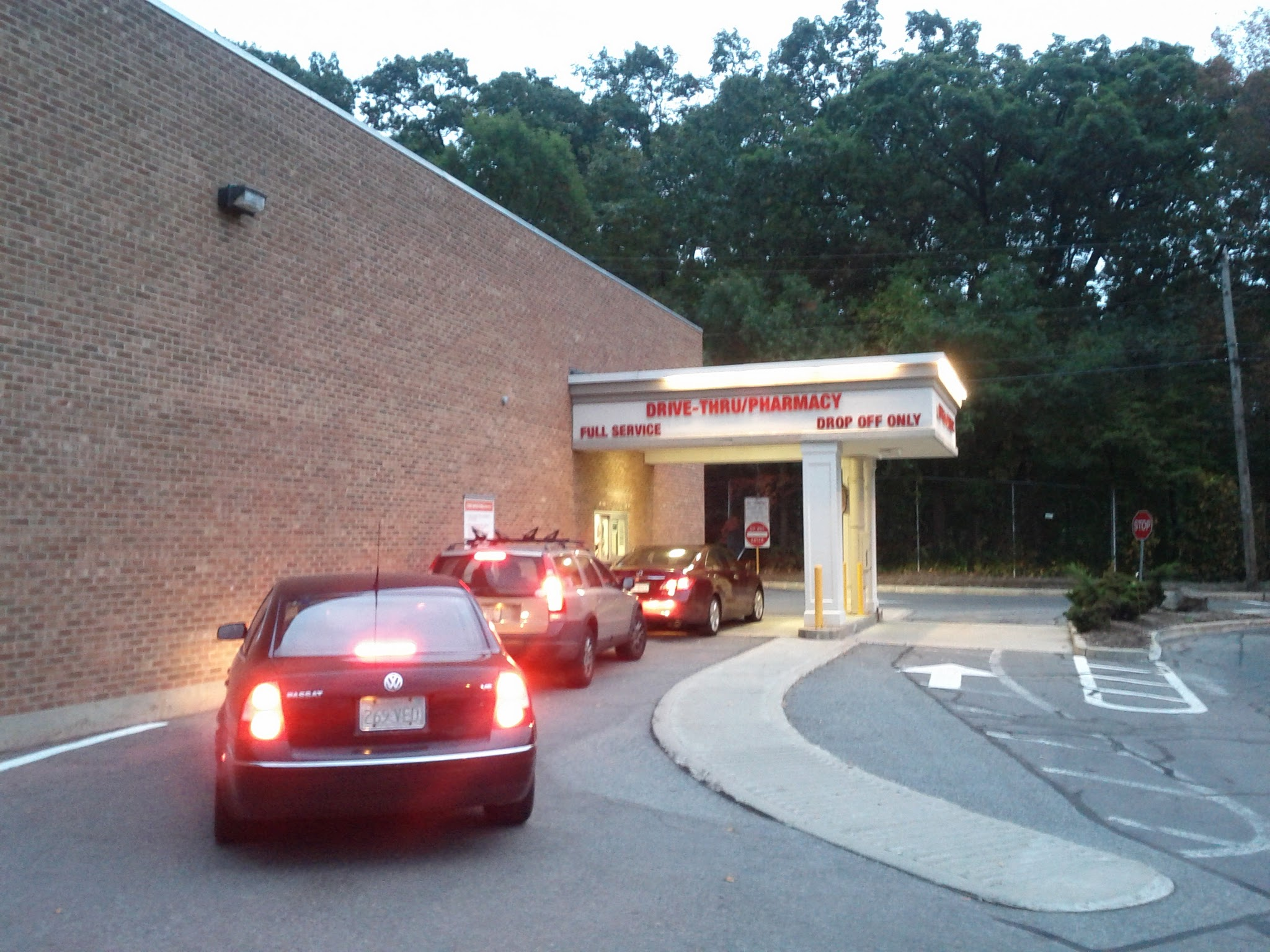 A CVS Drive Thru Drug Store in Swampscott, Massachusetts